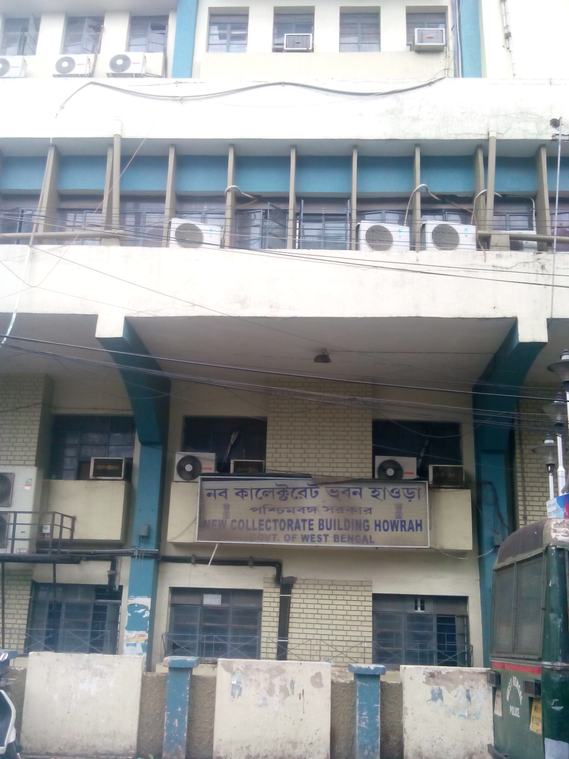 Howrah collector ate bhawan